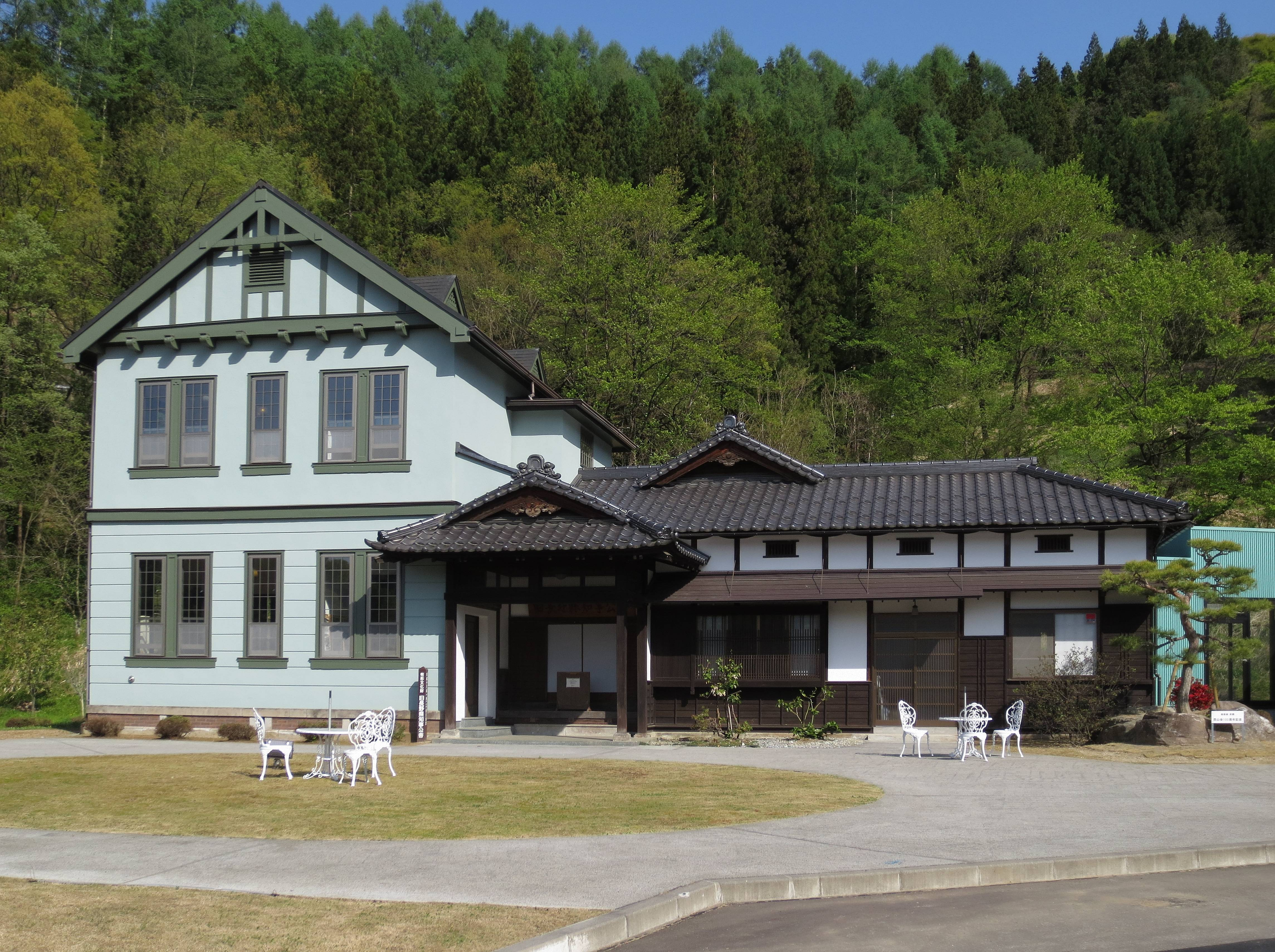 Furusato Land Ogawa.